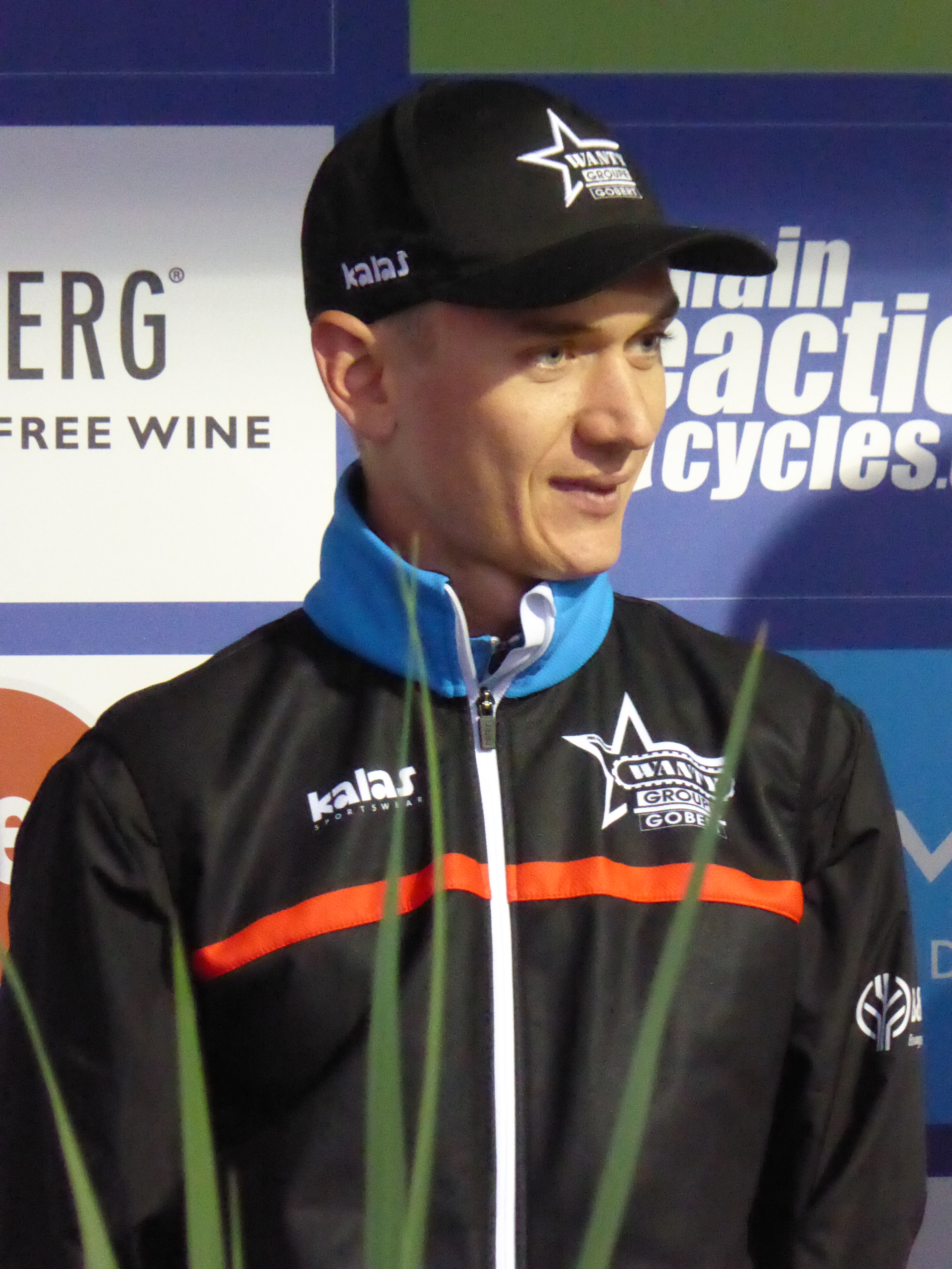 Mark McNally (Wanty-Groupe Gobert), pictured at the 2016 Tour of Britain team presentation in Glasgow on 3 September 2016.